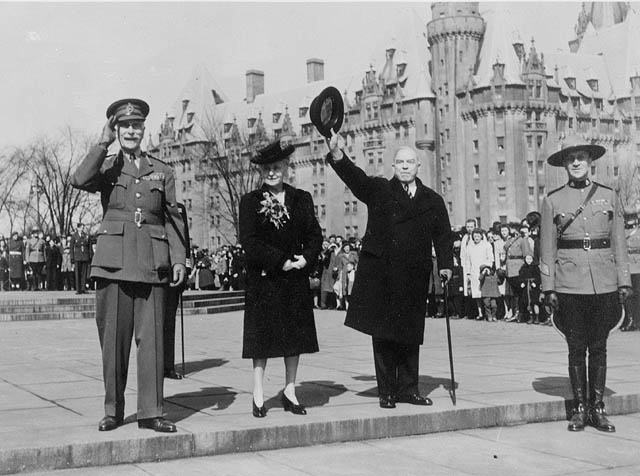 Rt. Hon. W.L. Mackenzie King leading farewell cheers for the outgoing Governor General of Canada, the Earl of Athlone